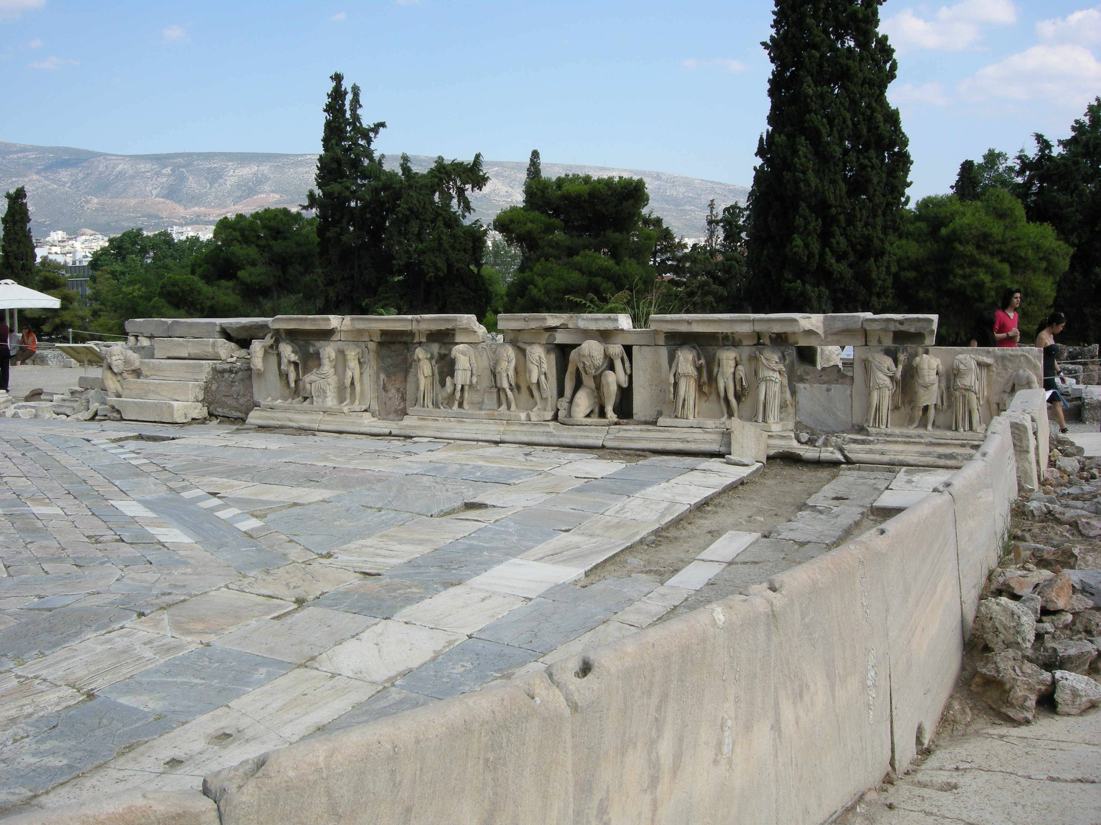 Theatre of Dionysus